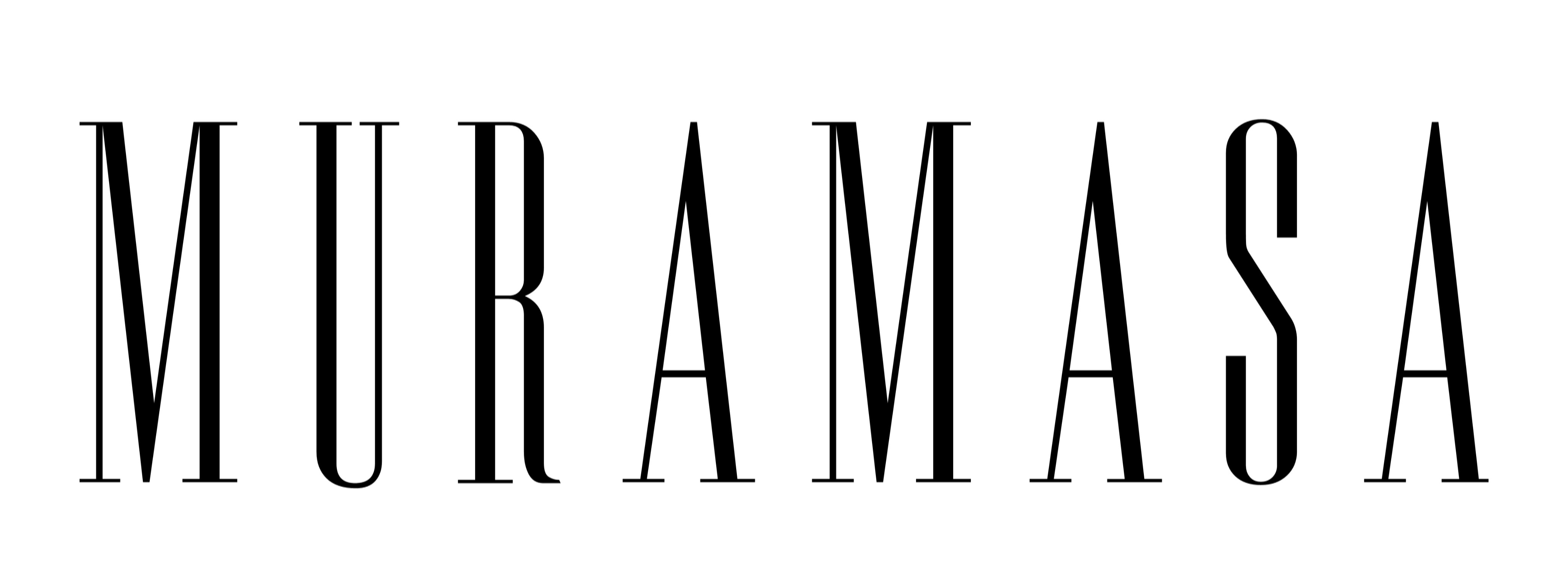 This logo was used by Mura Masa during 2013.